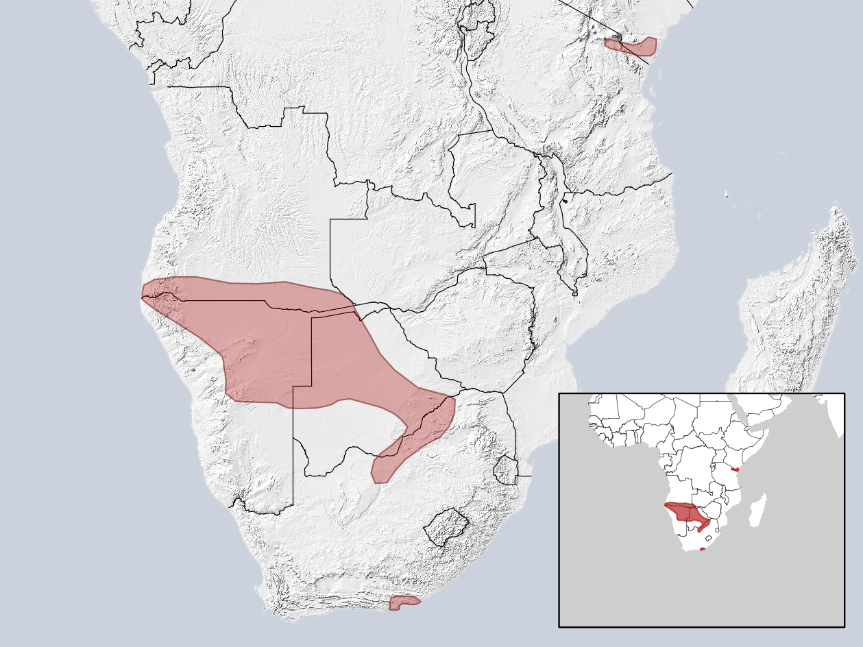 geographic distribution of Acontias percivali, with national borders added.